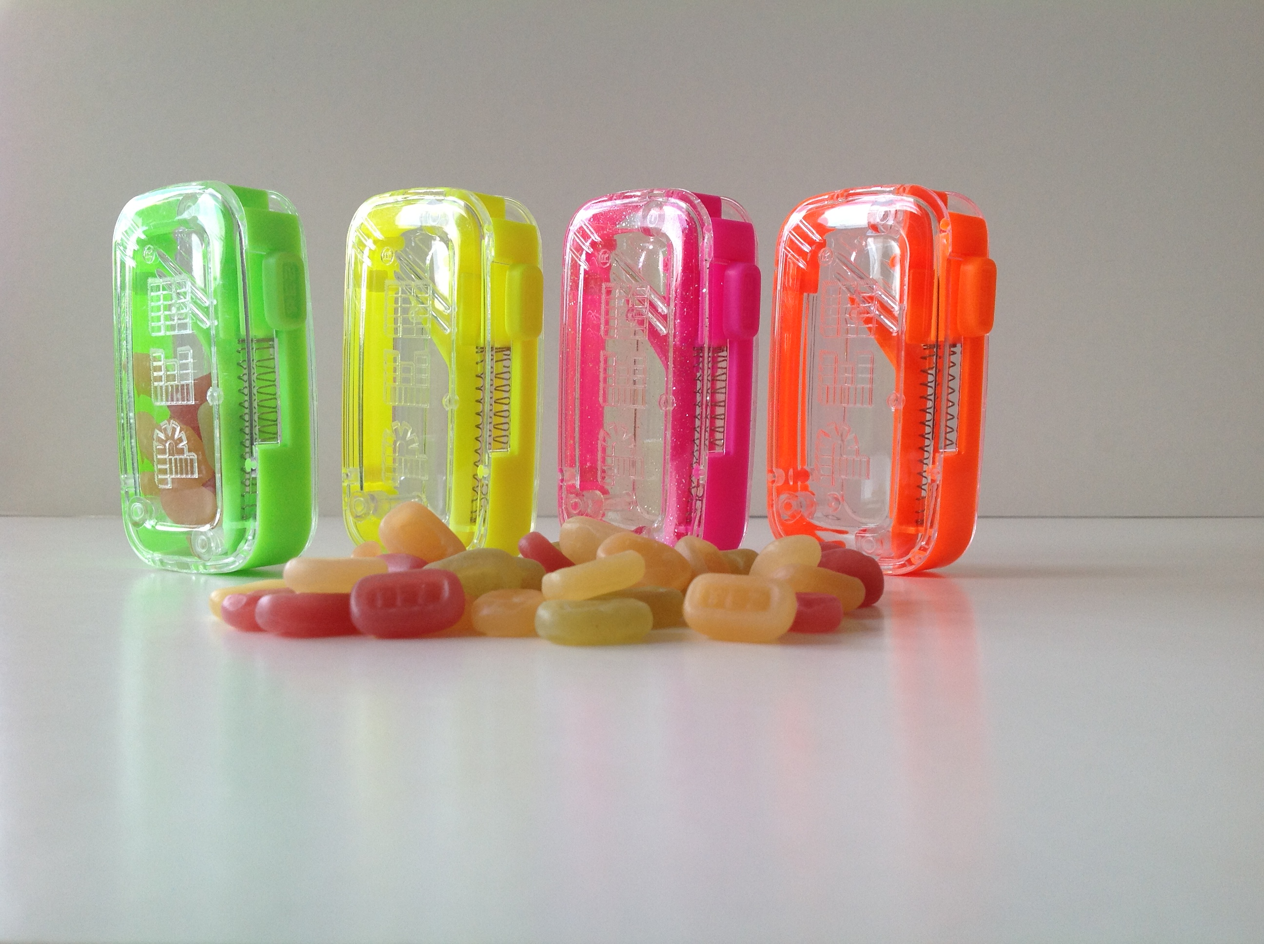 PEZ Soft neon edition dispensers with fruit gums, 2013.